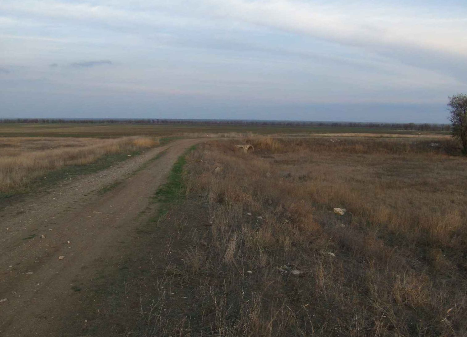 Valley of the former village Pyostroe, Crimea